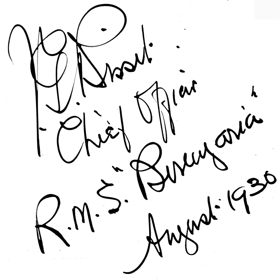 The signature of Sir James G.P. Bisset, the Commodore of the Cunard White Star Line (1944–47), while he was serving a Chief Officer of the RMS Berengaria in August, 1930.